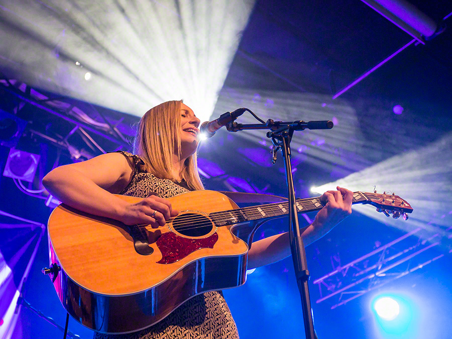 Christine Sandtorv at the reunion concert with Ephemera at Parkteatret in Oslo on 16.04.2016. Lineup:Jannicke Larsen (keyboard)Ingerlise Størksen (guitar)Christine Sandtorv (guitar)